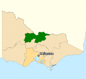 This image incorporates data that is: © Commonwealth of Australia (Australian Electoral Commission) 2009 Division of Murray 2010